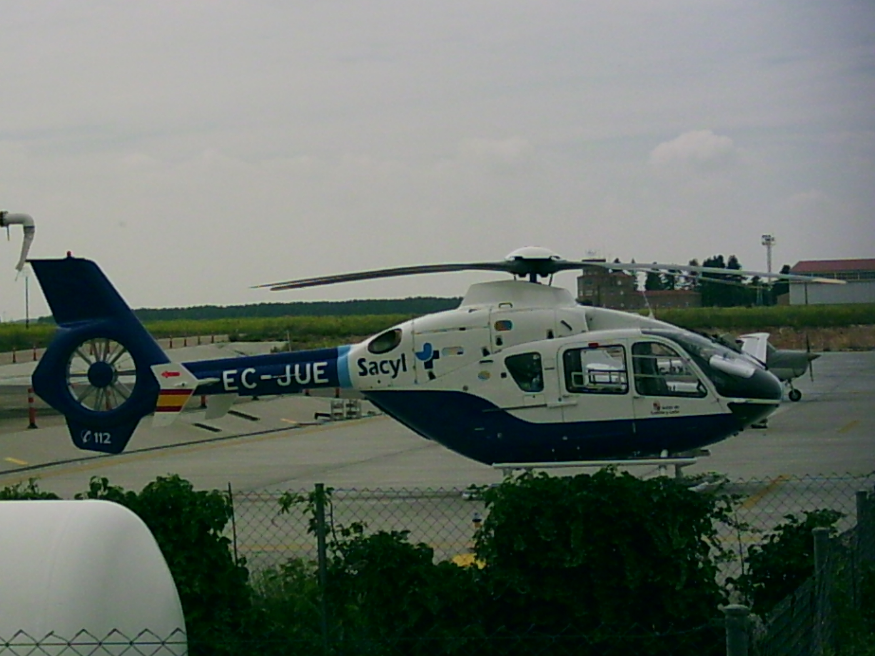 EC135 of healthy in the Valladolid Airport